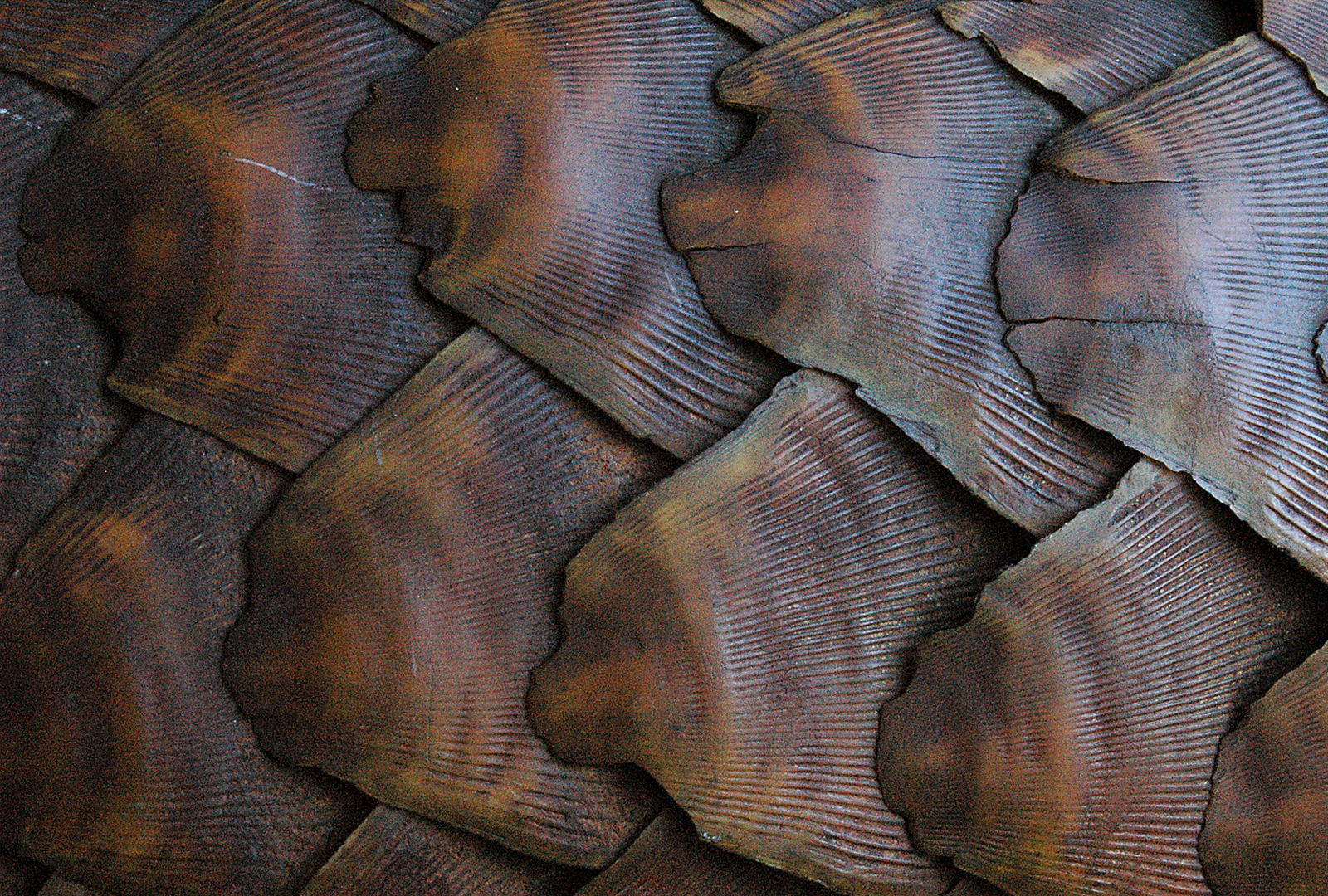 Scales of Ground Pangolin Manis temminckii